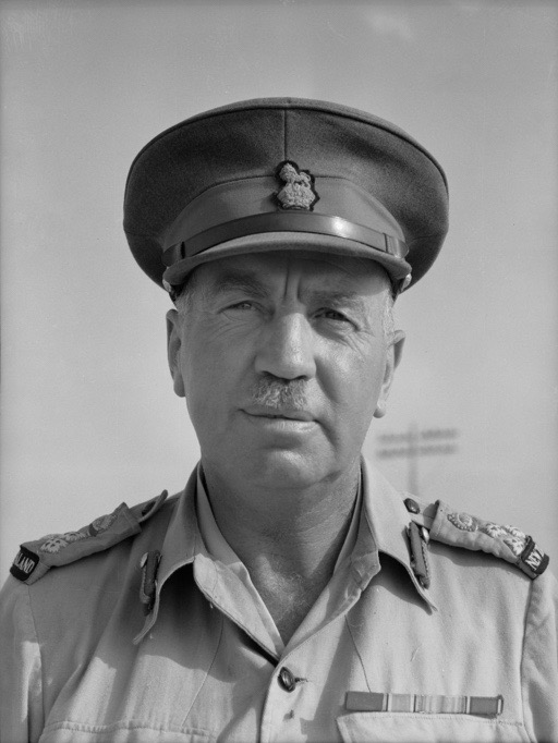 Brigadier Graham Beresford Parkinson, Maadi, Egypt, August 1943, photographed by George Robert Bull. Bull, George Robert, 1910-1966. Brigadier Graham Beresford Parkinson, Maadi, Egypt. New Zealand. Department of Internal Affairs. War History Branch :Photographs relating to World War 1914-1918, World War 1939-1945, occupation of Japan, Korean War, and Malayan Emergency. Ref: DA-04418-F. Alexander Turnbull Library, Wellington, New Zealand. George Bull was an official photographer of the NZ Military Forces and thus copyright in this work rests or rested with the Crown. The Crown has released this work under the CC-BY 3.0 unported license. Refer to source website for details: This work's copyright expired 50 years after creation in New Zealand and probably also in countries following the rule of the shorter term.